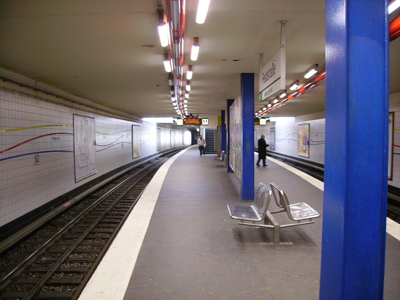 Platform at Feldstaße station in 2009 (view toward Sternschanze station).